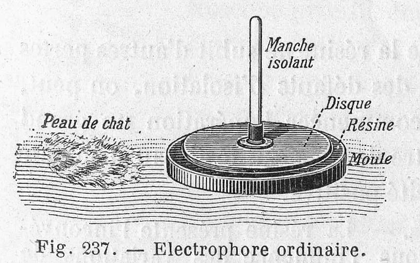 Illustration of Volta's electrophorous